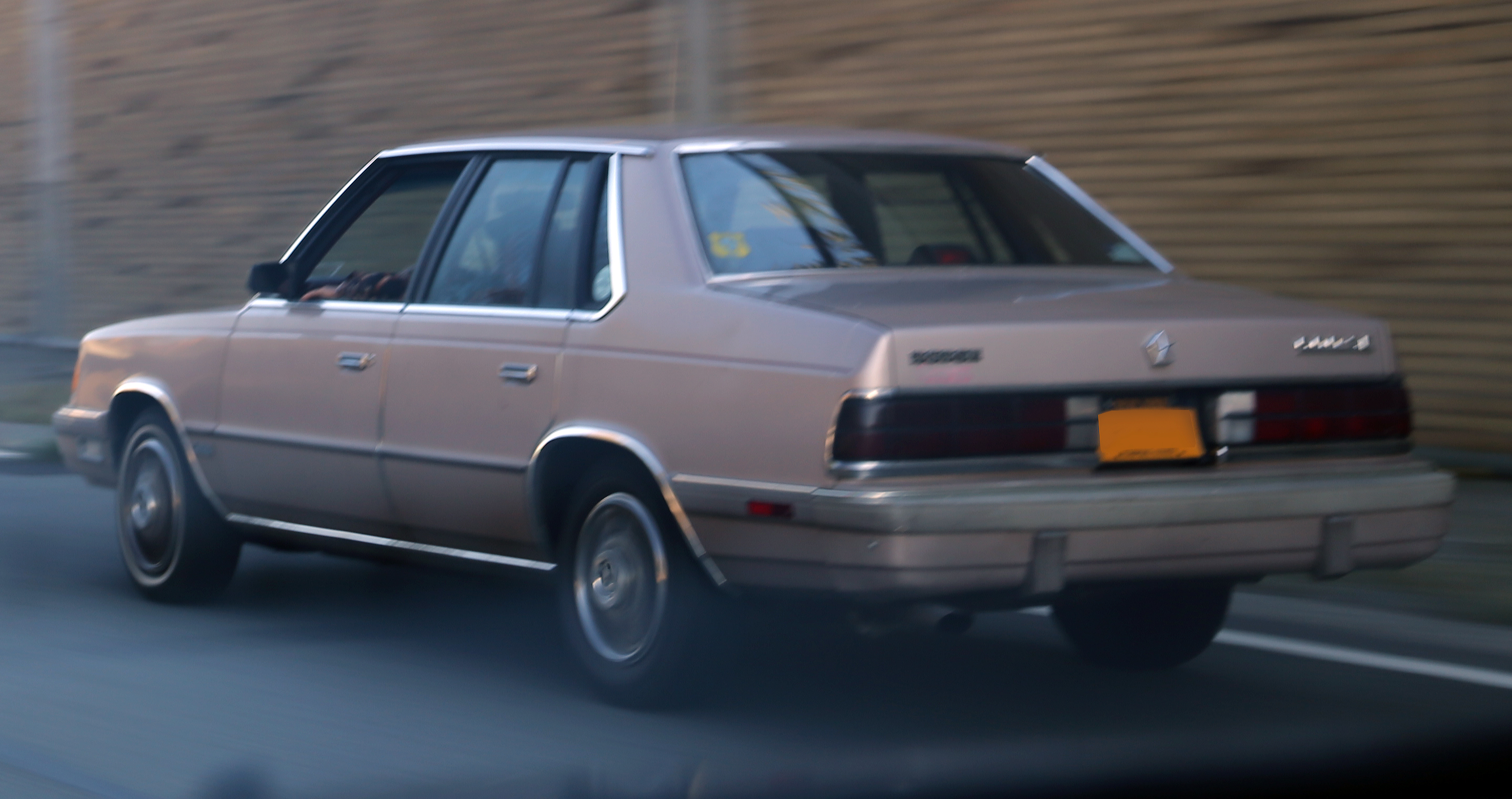 1986-1988 Dodge 600 SE, photographed somewhere on the Grand Central Parkway. Not the best photo, but so far the only rear 3/4 shot of a 600 sedan.